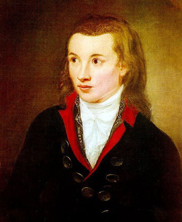 Portrait of Novalis (1772-1801)